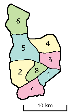 Subdistricts of Si Somdet